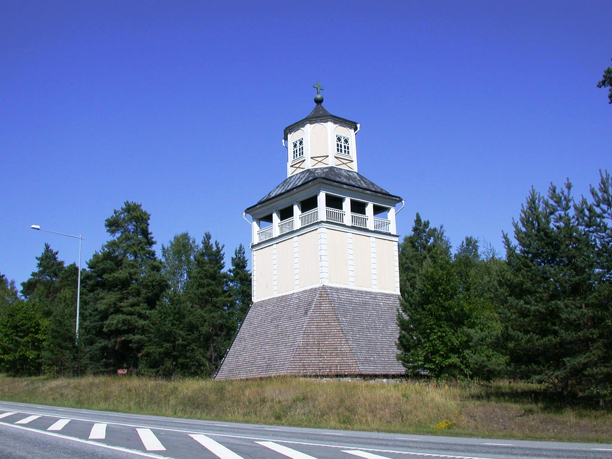 The bell tower, Björklinge church, Uppsala, Sweden. Photo by Riggwelter, July 16, 2006.